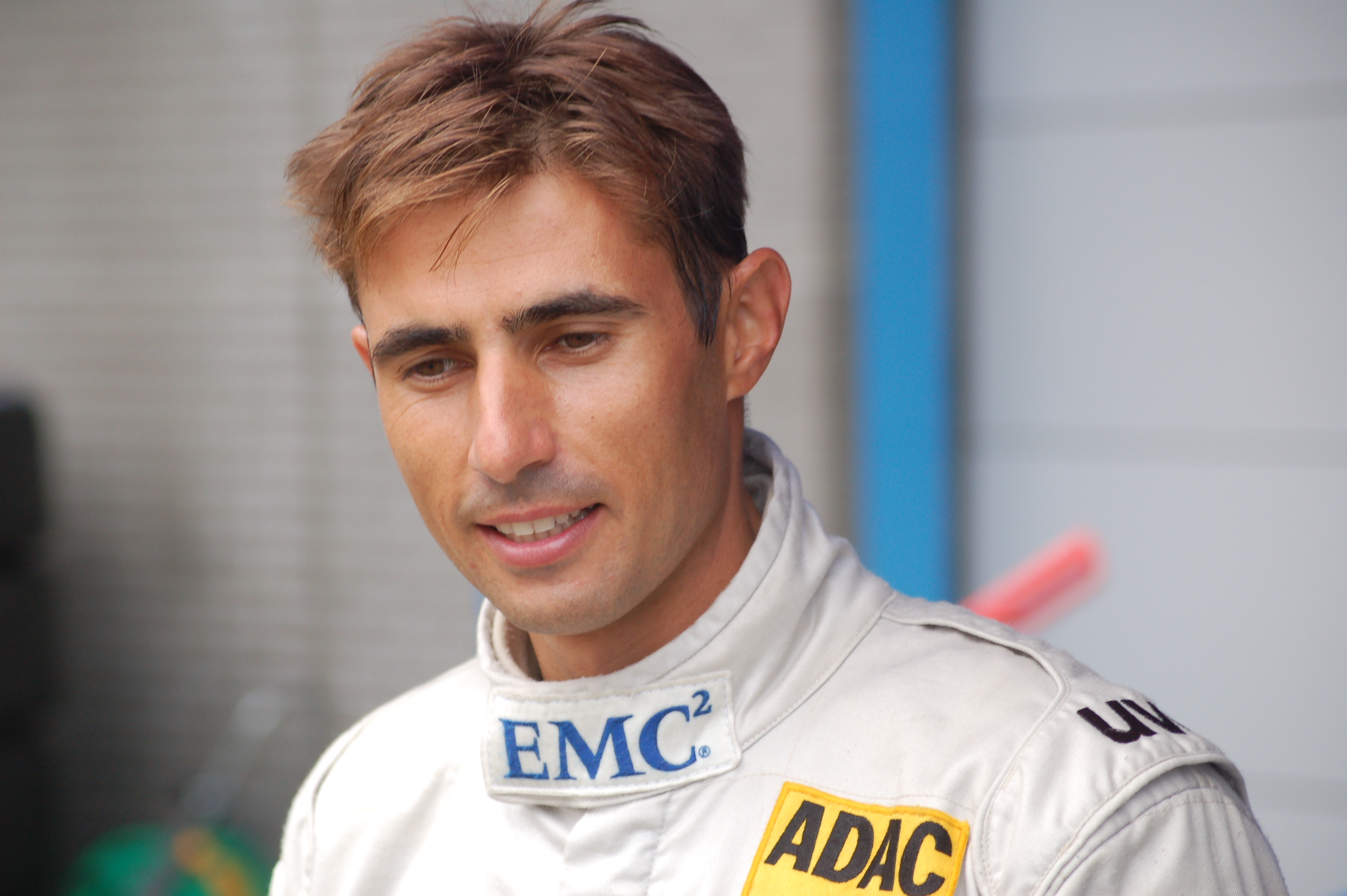 Dino Lunardi in Assen 2011